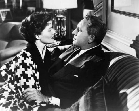 Katharine Hepburn & Spencer Tracy in American romantic comedy film Adam's Rib (1949). See also film still. No copyright notice.